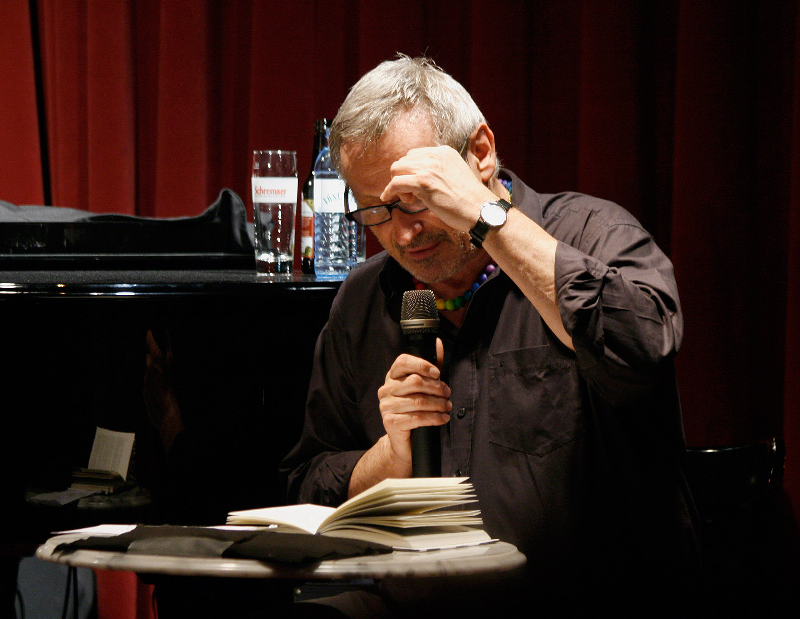 Concert and reading of Konstantin Wecker at the Rote Bar (red bar) of the Volkstheater in Vienna, a charity event for the United Nations Children's Fund (UNICEF)